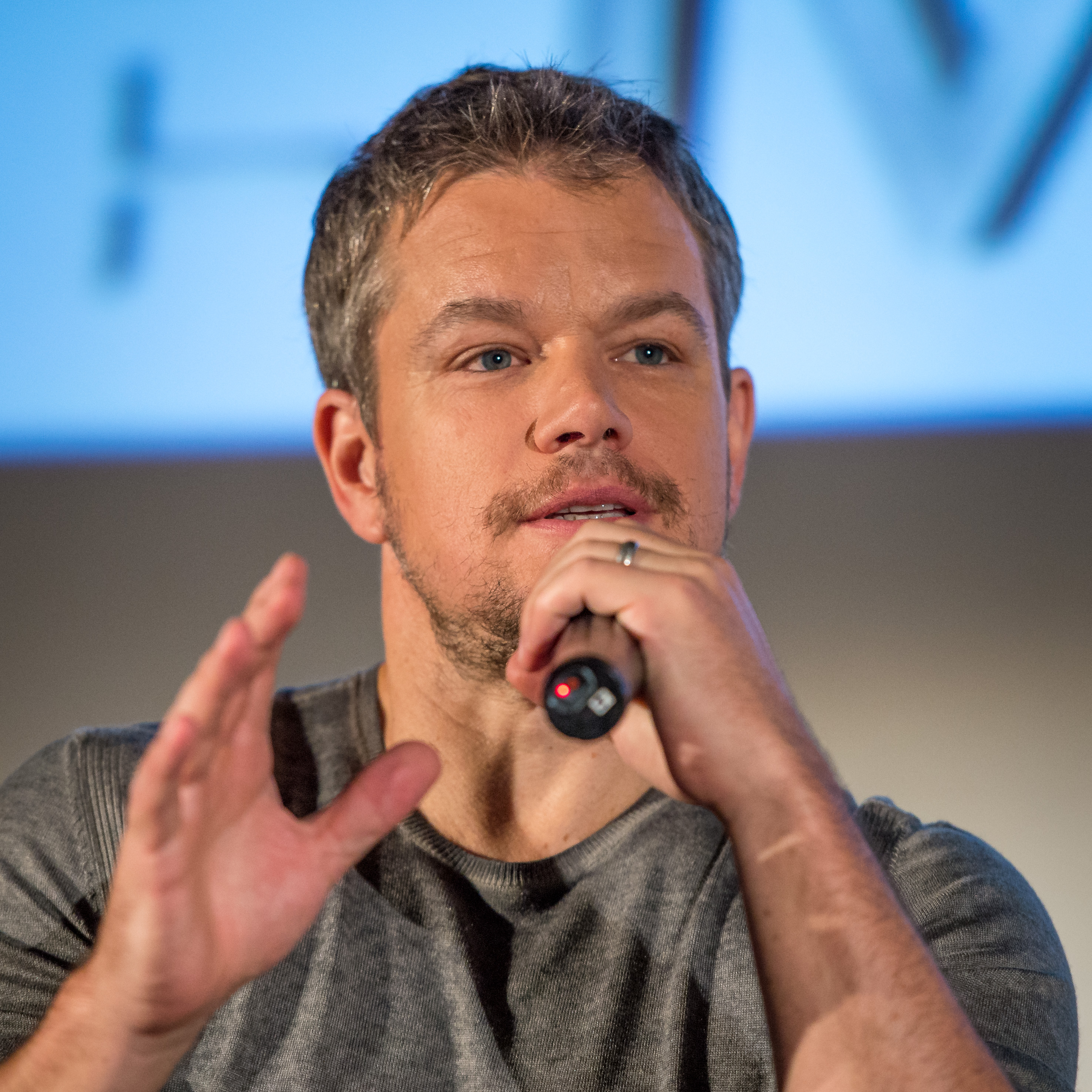 Actor Matt Damon, who stars as NASA Astronaut Mark Watney in the film “The Martian,” participates in a question and answer session, Tuesday, Aug. 18, 2015, at the United Artist Theater in La Cañada Flintridge, California. NASA scientists and engineers served as technical consultants on the film. The movie portrays a realistic view of the climate and topography of Mars, based on NASA data, and some of the challenges NASA faces as we prepare for human exploration of the Red Planet in the 2030s.